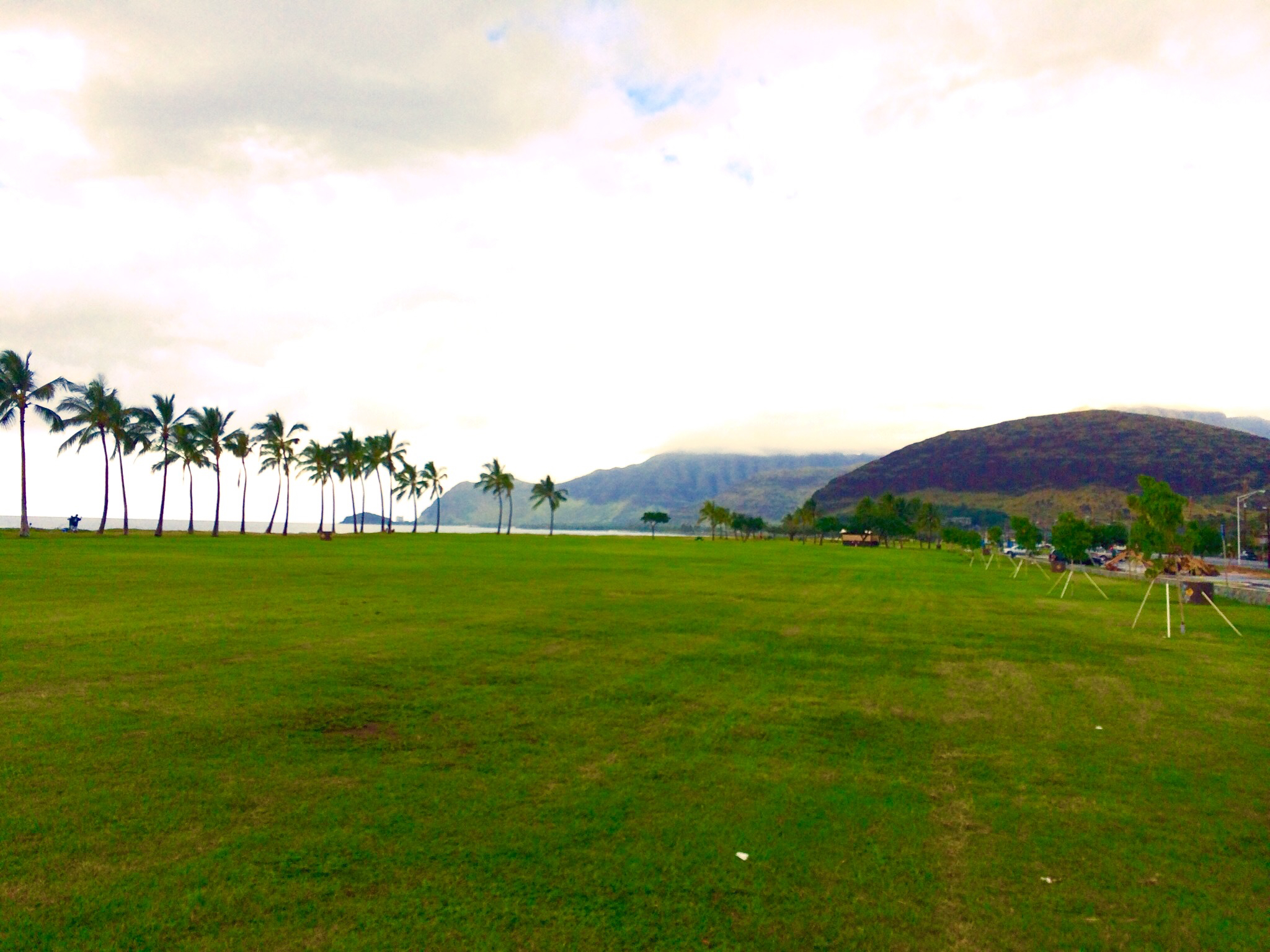 Māʻili Beach Park looking northwest.